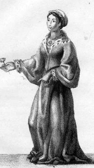 Blanche of Bourgogne